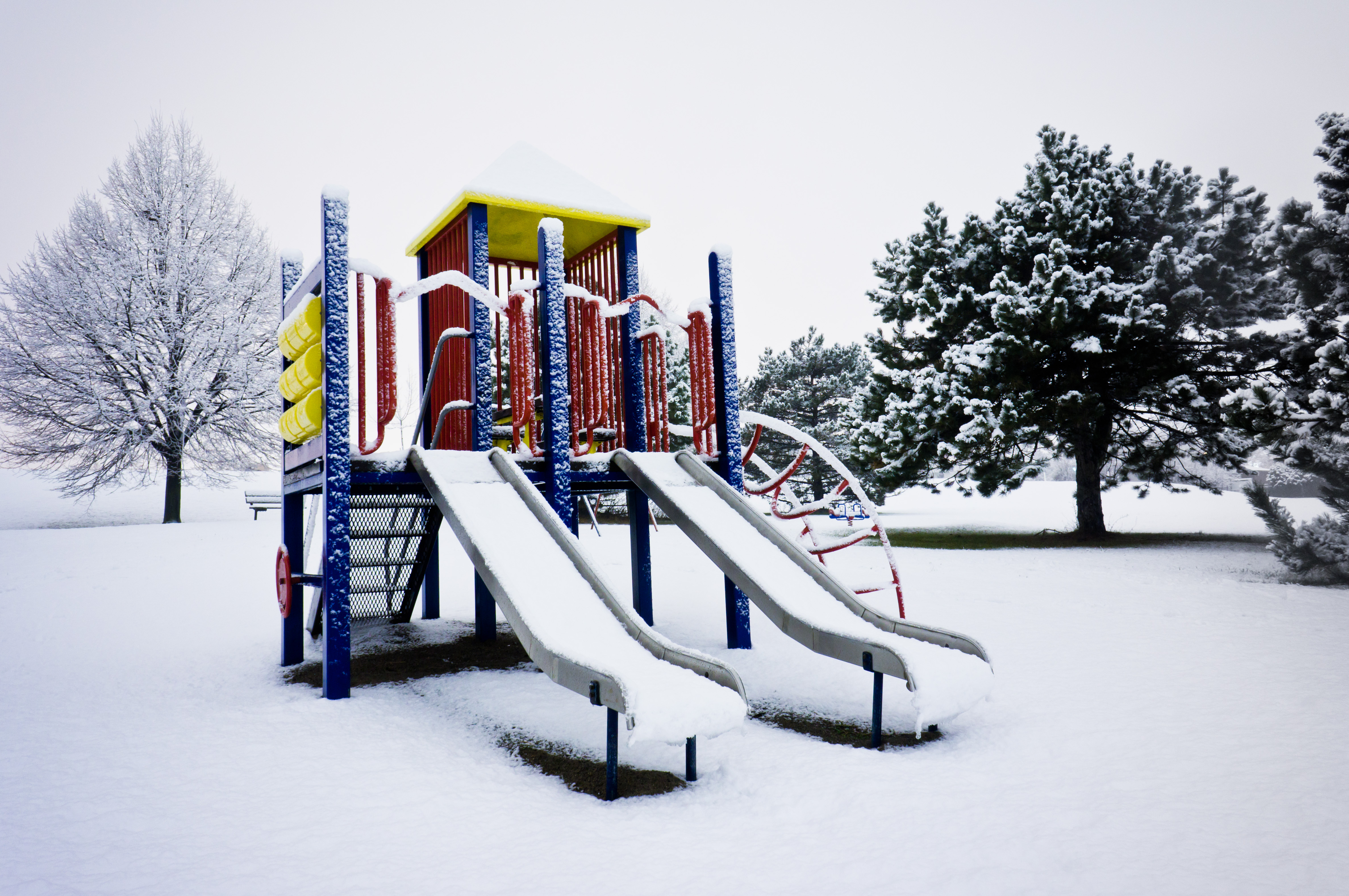 Snowy playground at a local park. There are mini glaciers on the slides... lol. Scarborough, Ontario